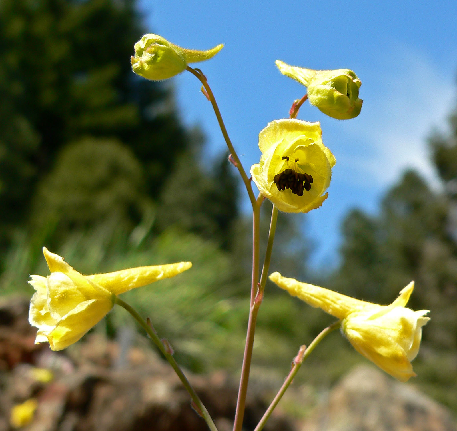 Photo of Delphinium luteum at the Regional Parks Botanic Garden, Berkeley, California